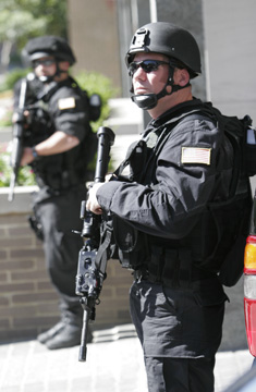 U.S. Dept. of State Mobile Security Deployment Special Agents at work "Diplomatic Security Mobile Security Deployment special agents stand watch during a protective detail for a foreign dignitary in Washington, DC.."[1]